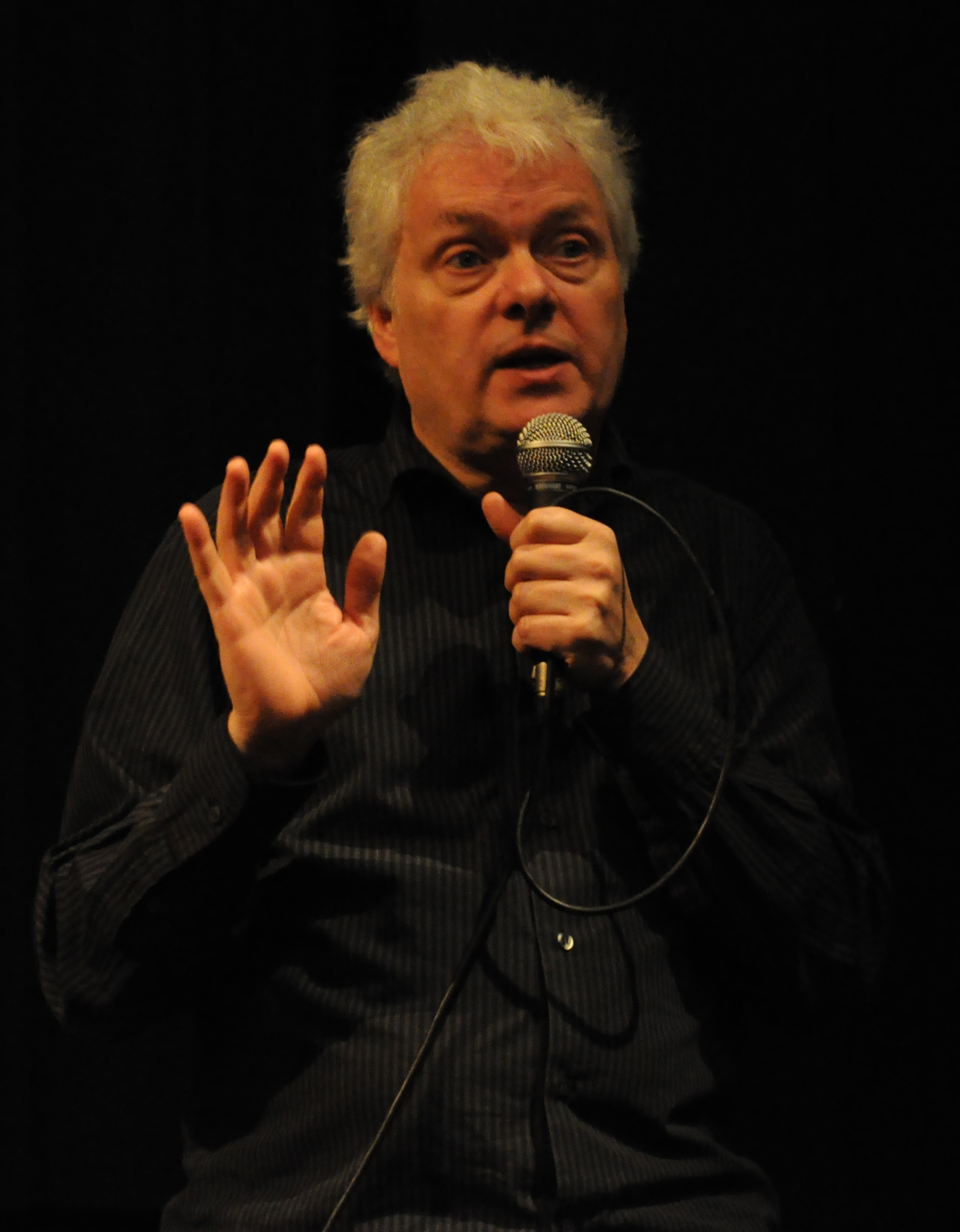 German composer and stage director Heiner Goebbels speaking at the PONCHO Auditorium, Kerry Hall, Cornish College of the Arts, Capitol Hill, Seattle, Washington.